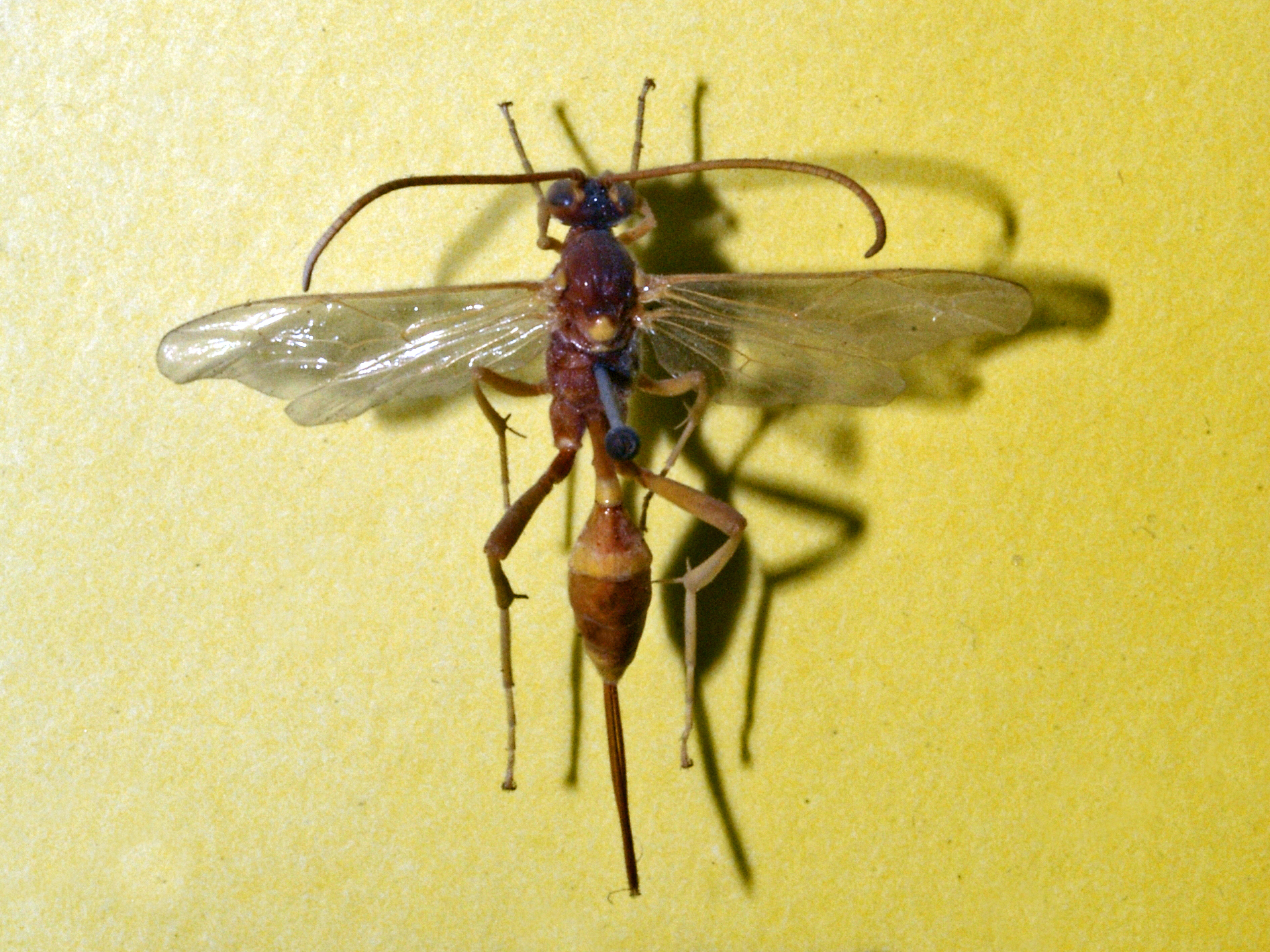 Acroricnus seductor. Museum specimen